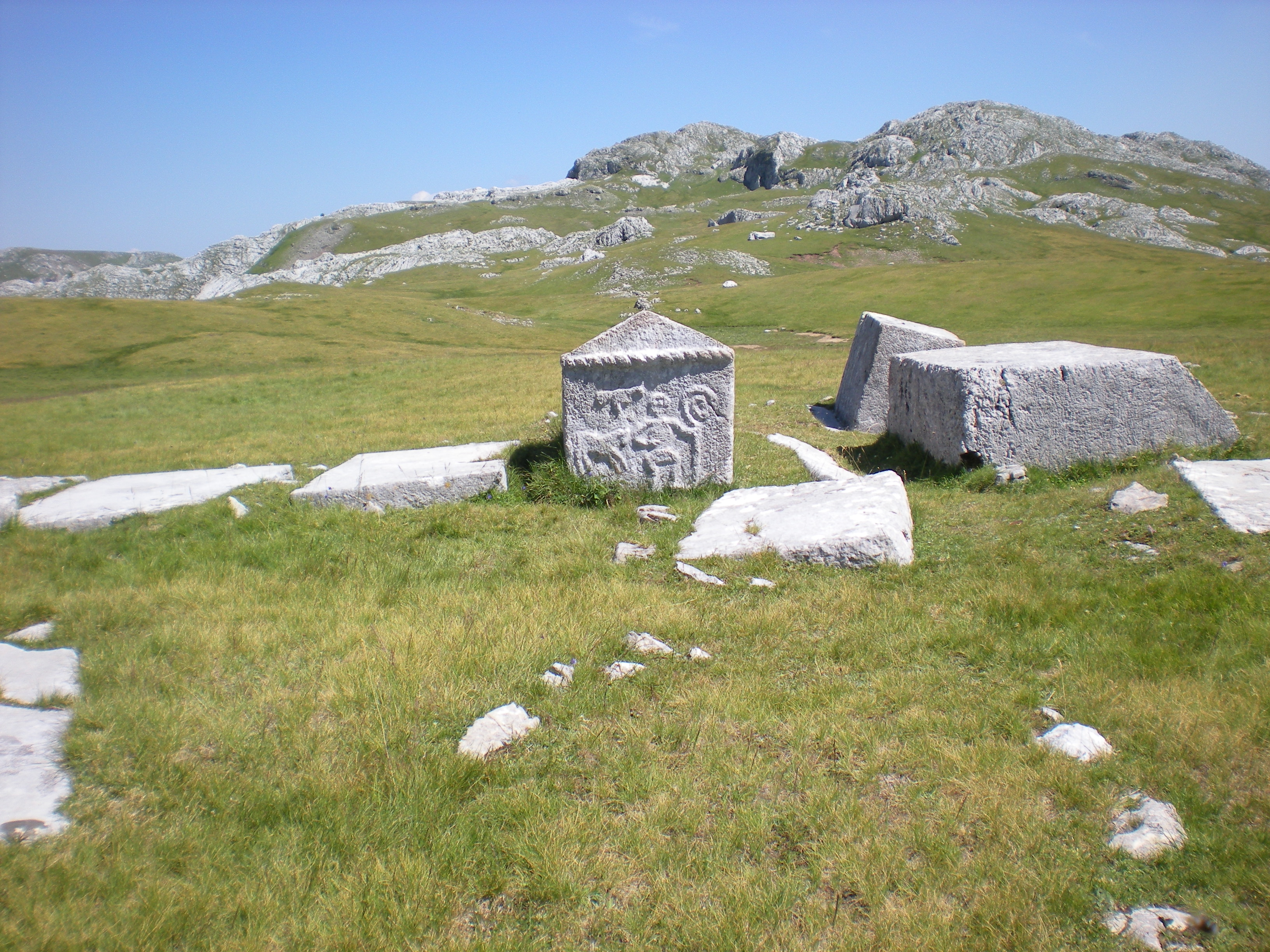 Visocica, Stecci at Jezera necropolis. One stecak showing a most striking image of -most probably- the Good Shepherd.